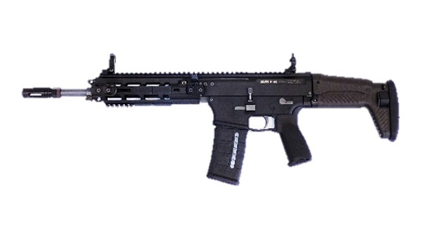 The unnamed future 5.56 NATO assault rifle for the Japanese Self-Defense Forces.